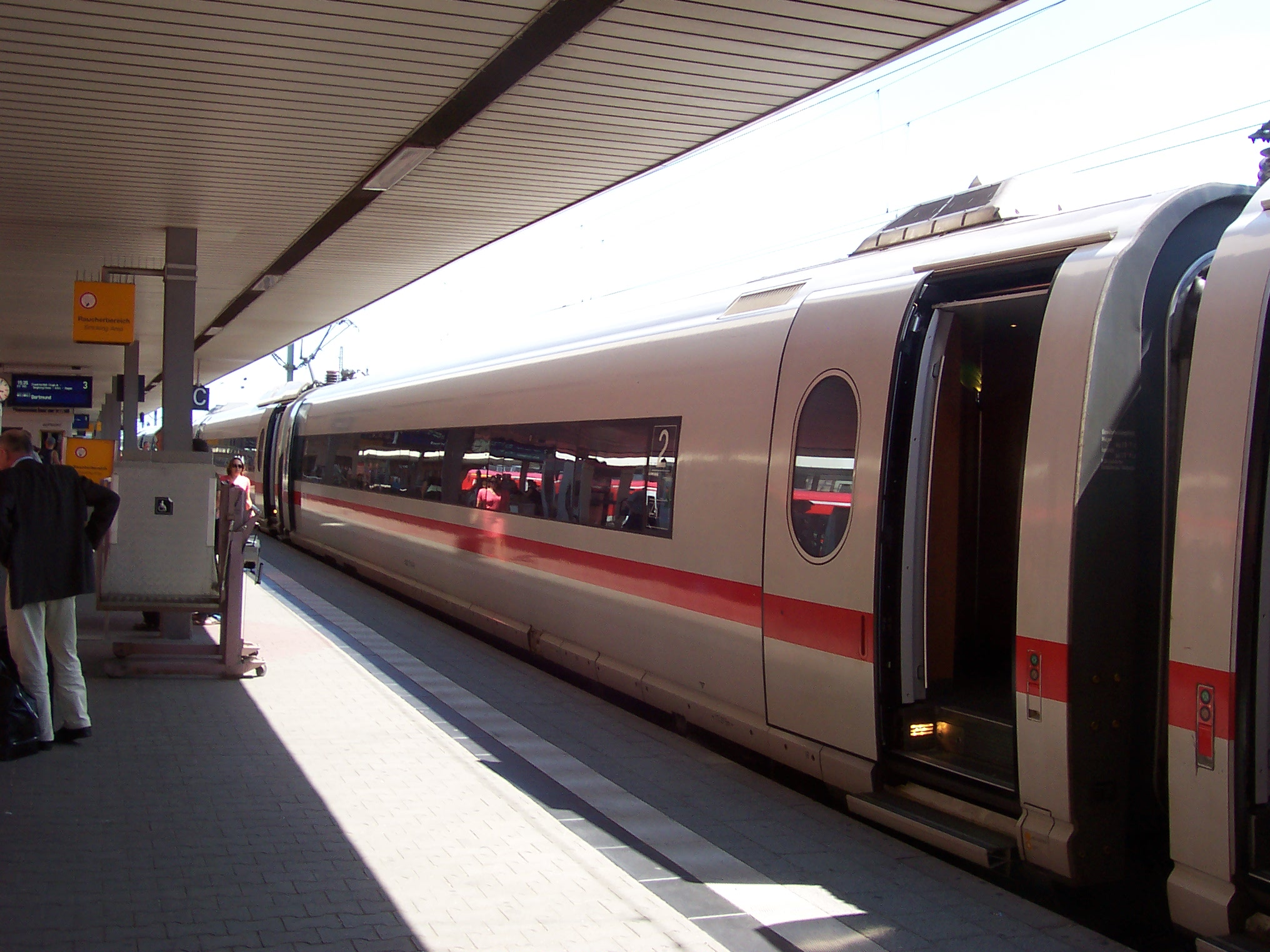 Train/Track Photos from my trip on a EuroCity Germany-Mannheim to France-Paris Est